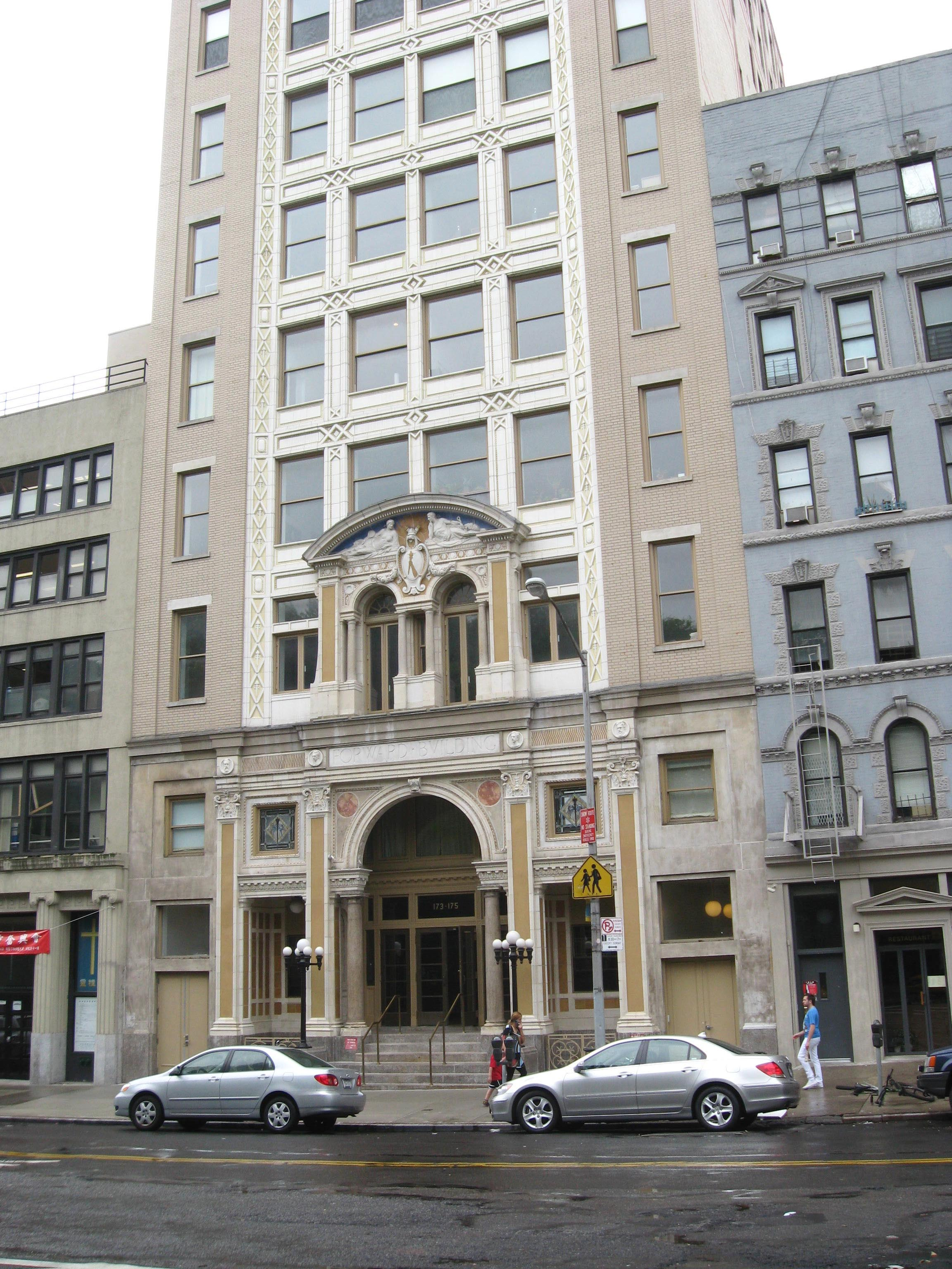 Looking south on The Forward building on a rainy afternoon. NYCLPC designation 1983.